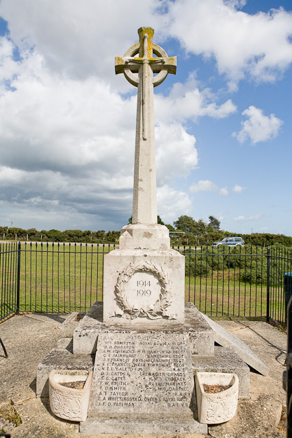 War Memorial, Sway. This memorial is to those who fell in World War I only. Compared with 76007, the bushes have gone.